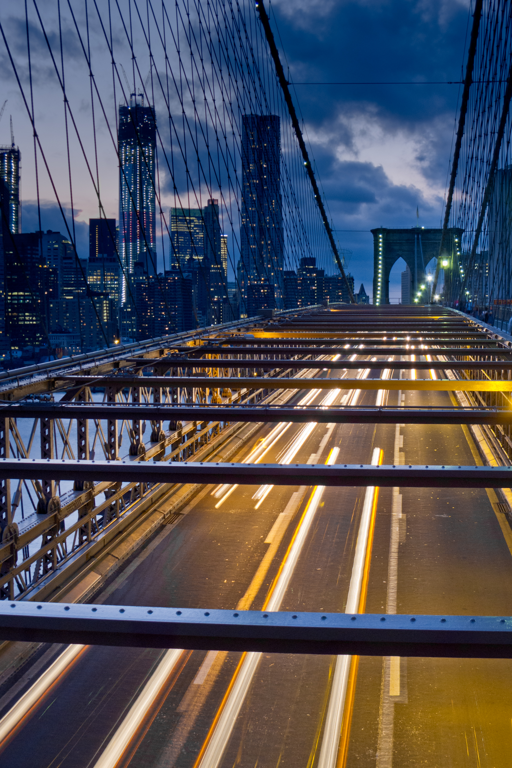 Brooklyn Bridge with Freedom Tower and 8 Spruce Street in the background, New York, United States.